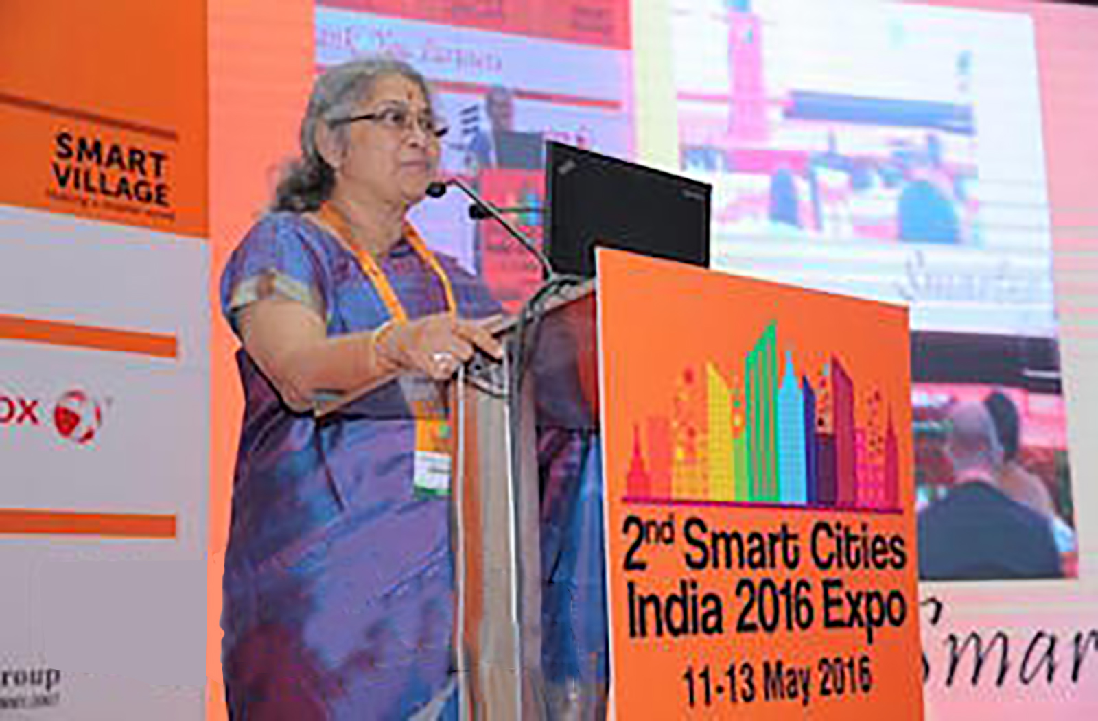 Sheila Sri Prakash 2016 Smart Cities India Expo in New Delhi, keynote address